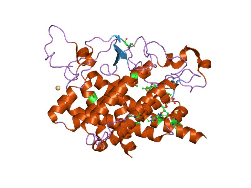 Cartoon representation of the molecular structure of protein registered with 1rp4 code.